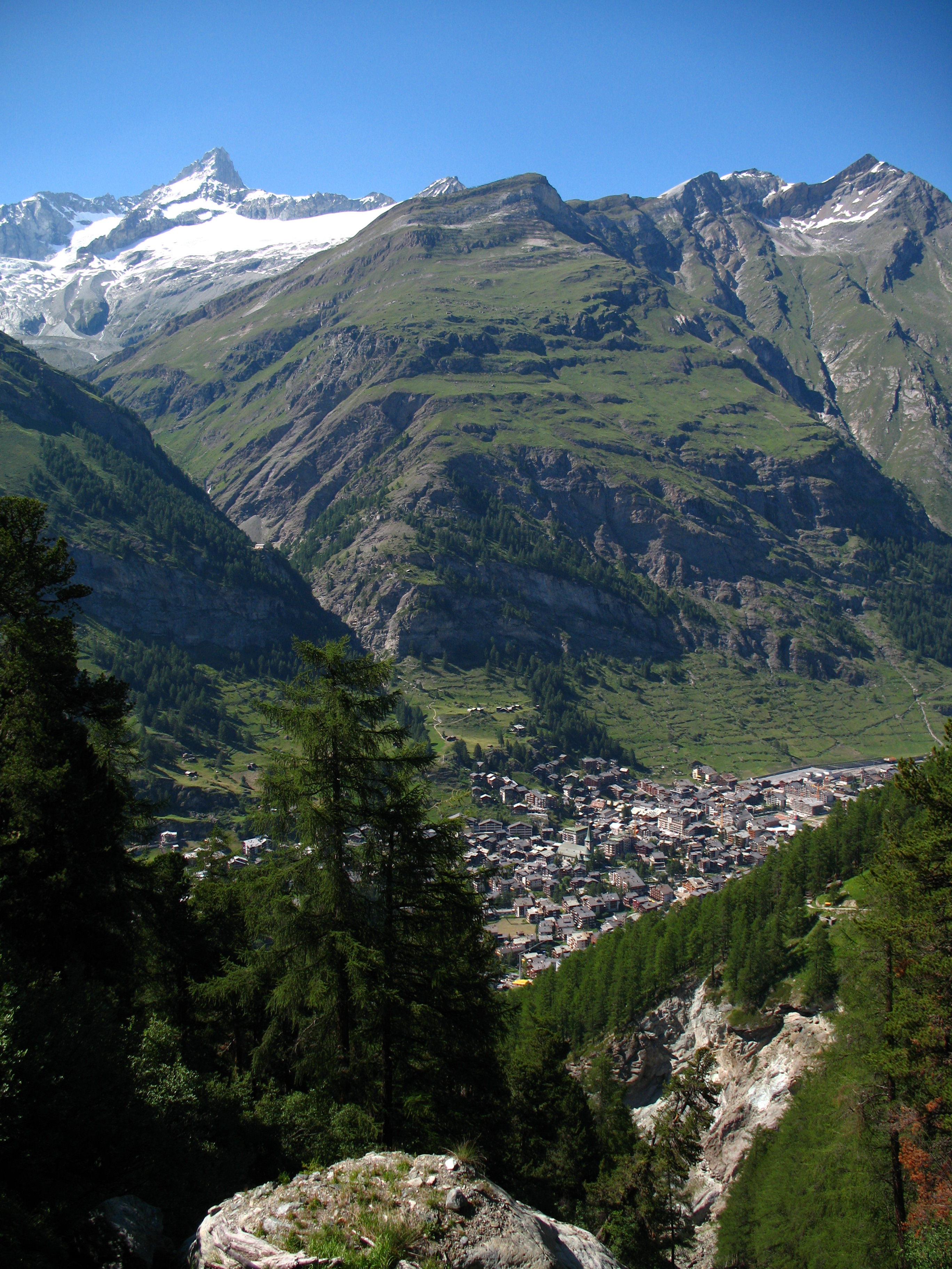 Zermatt, Switzerland